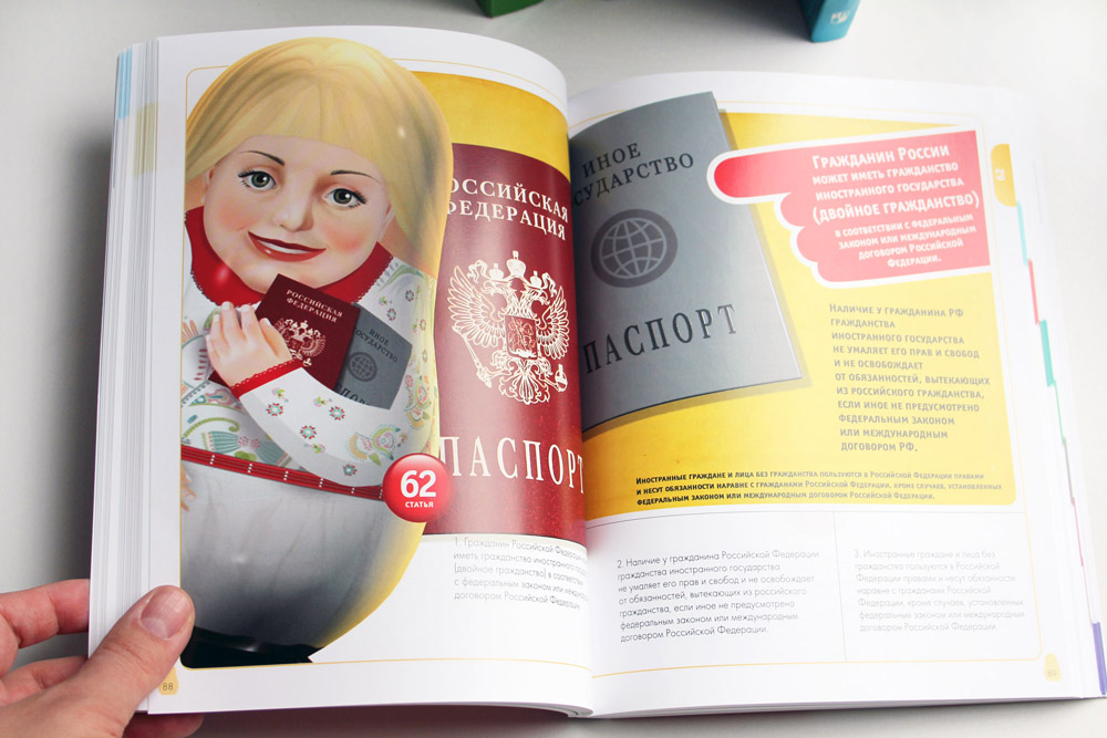 «Russian Constitution Illustrated» book. Artwork by Natalia Khudyakova and Maxim Gorelov. «We will give the Constitution to the people!» We are glad to present the second edition of «Russian Constitution Illustrated» book (ISBN 978-5-9903543-2-6). The decoration of structural logic and infographics in the constitutional-legal field are so rare phenomenons that we can talk about the uniqueness of this publication. The book is logically illustrated by pictures and patterns made in the traditional style. It makes legal language of Constitution reading much more easier. The Constitution of Russian Federation text in Russian and English is verified with official sources and includes all adopted amendments. This informative publication can be special Russian souvenir and great gift. Thank you for your interest to the main book of Russia! Award: «Muses of the World» IV International competition: 1st prize in the category «Graphical Design», for the artwork in the book «Russian Constitution Illustrated».